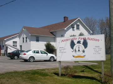 External view of the Alderville First Nation Administration/Band Office